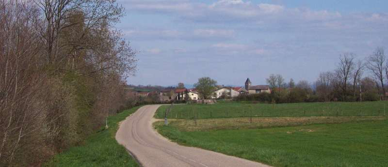 Fremenil village in Lorraine, France, from Domjevin' road